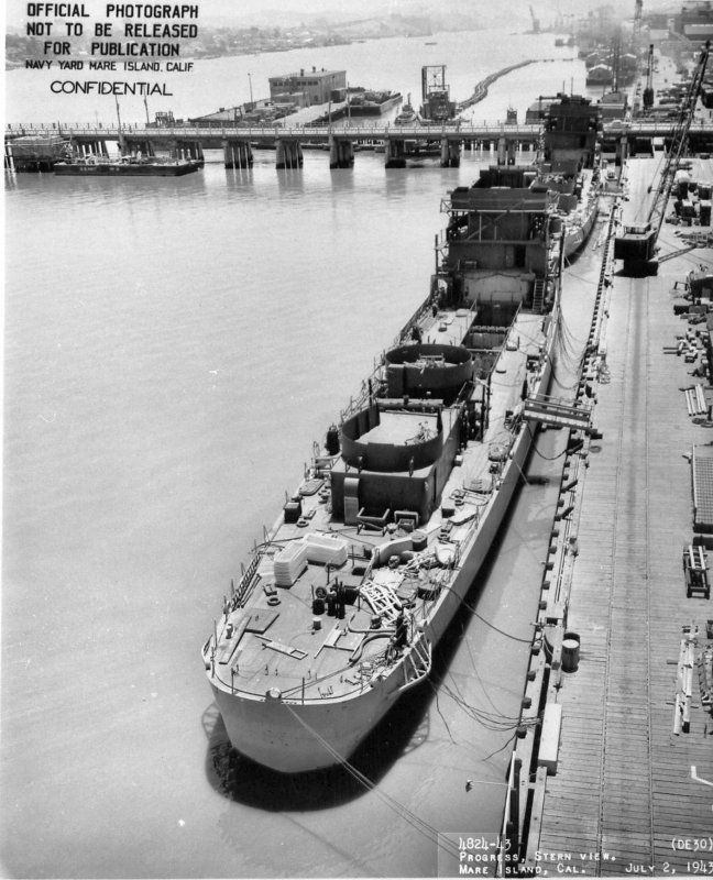 The U.S. Navy destroyer escort USS Martin (DE-30) at her outfitting berth at the Mare Island Naval Shipyard, Cailfornia (USA), on 2 July 1943. USS Stadtfeld (DE-29) is forward of Martin.